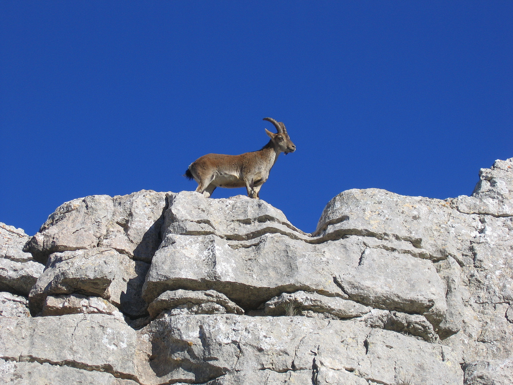 Cabra montés (Capra pyrenaica hispanica) in El Torcal, Málaga, Spain